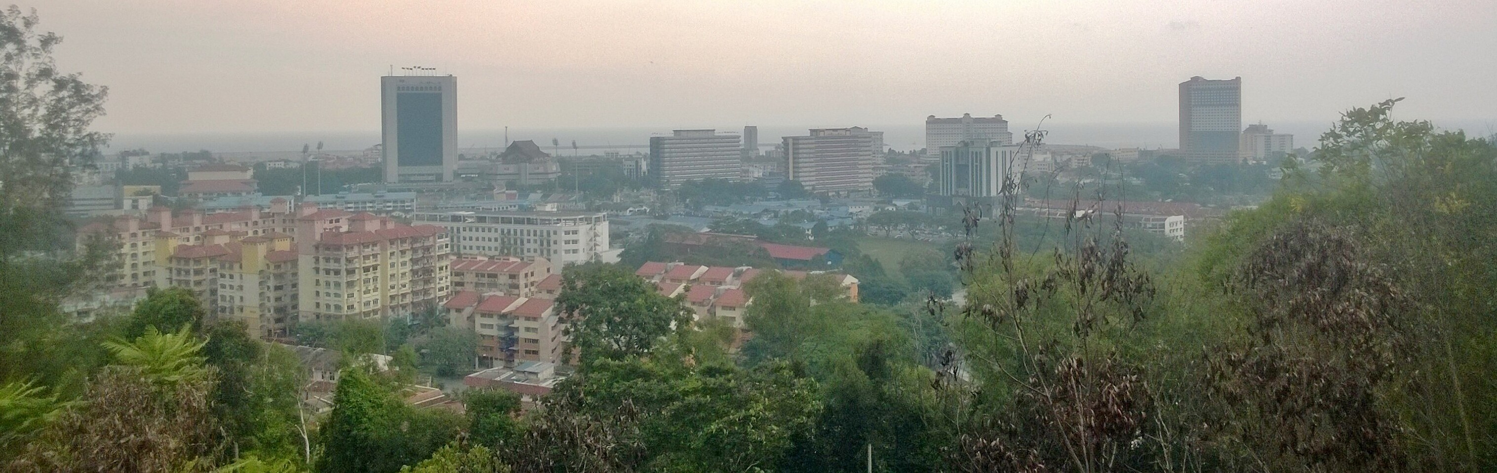 The view of Kuala Terengganu from the top of Bukit Panorama, a hillside recreational area.